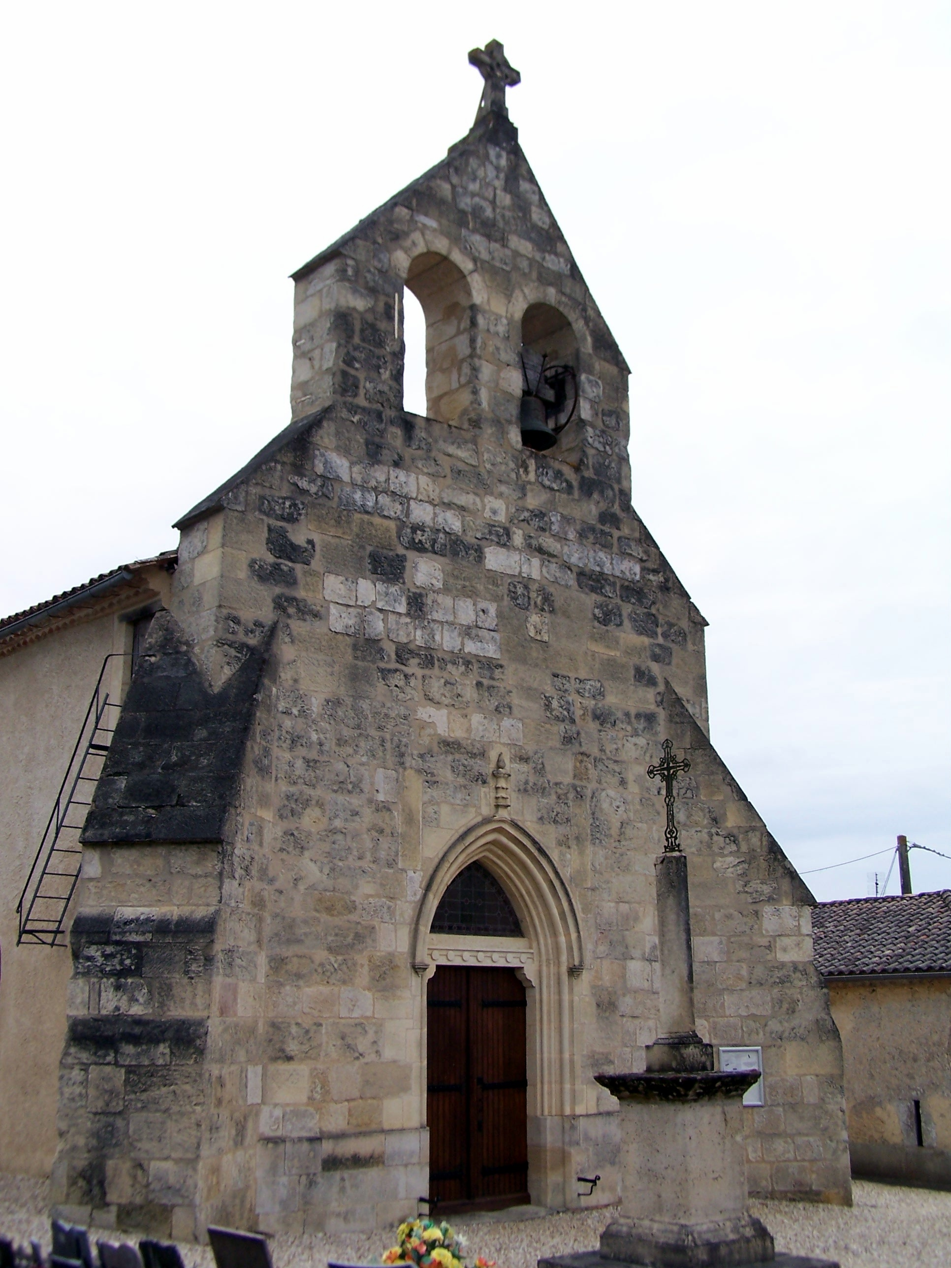 Saint-Christopher church of Donzac (Gironde, France)